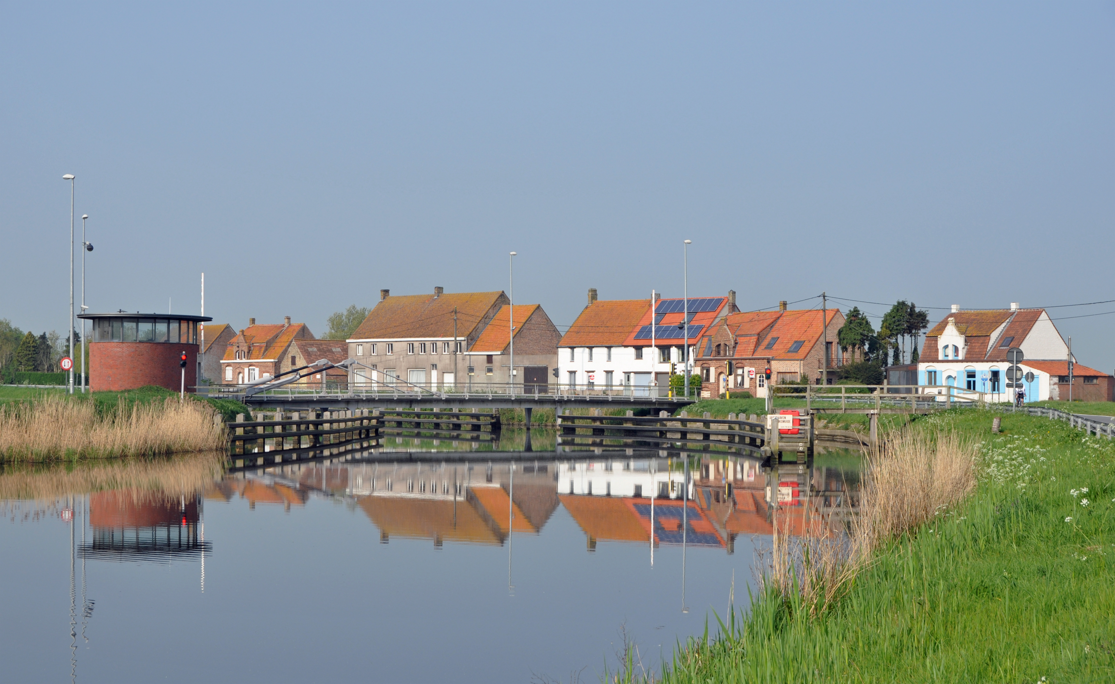 Diksmuide (West Flanders, Belgium): the hamlet of Tervate and the new Tervate bridge on the IJzer river